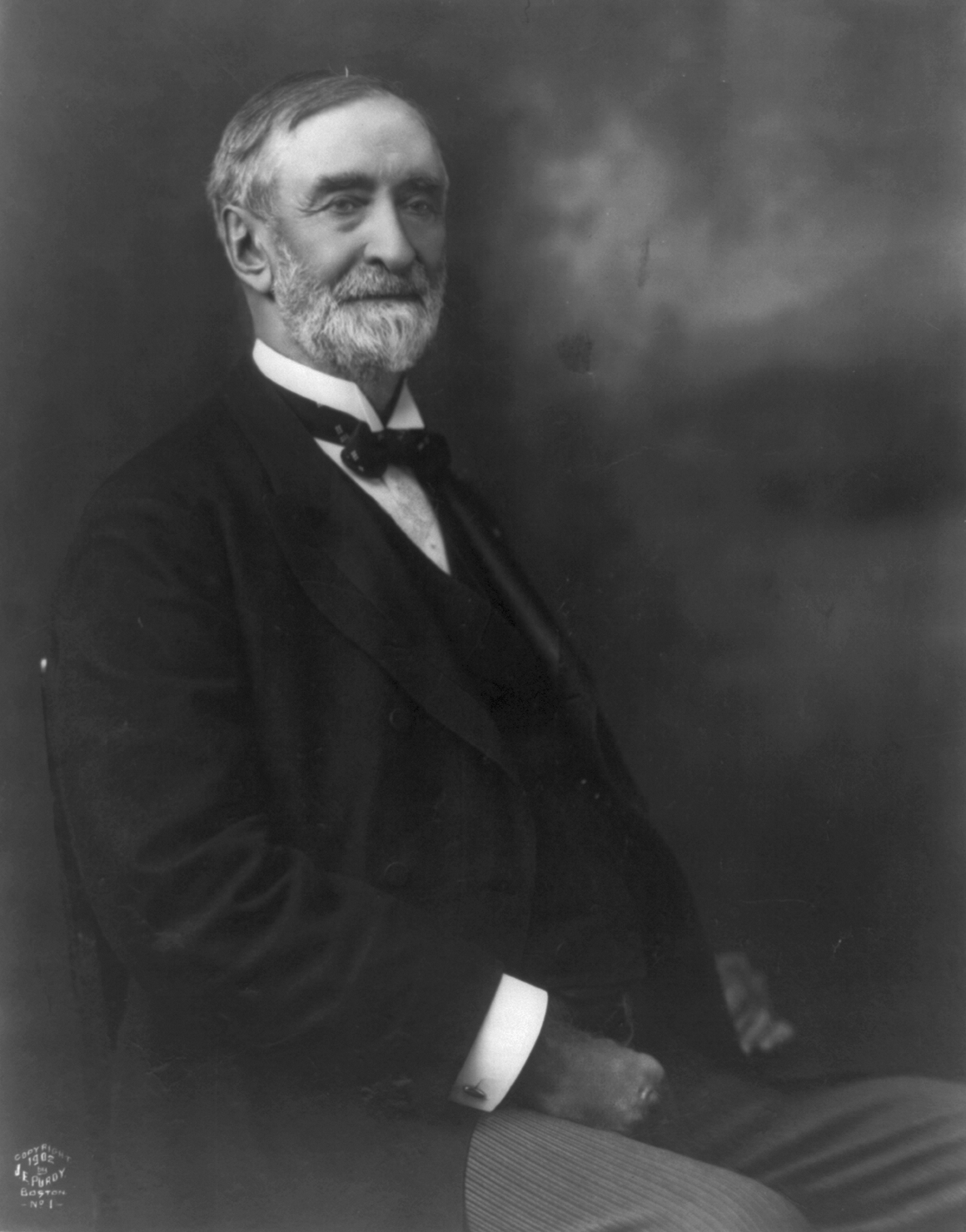 Redfield Proctor, 1831-1908, half-length portrait, seated, facing right